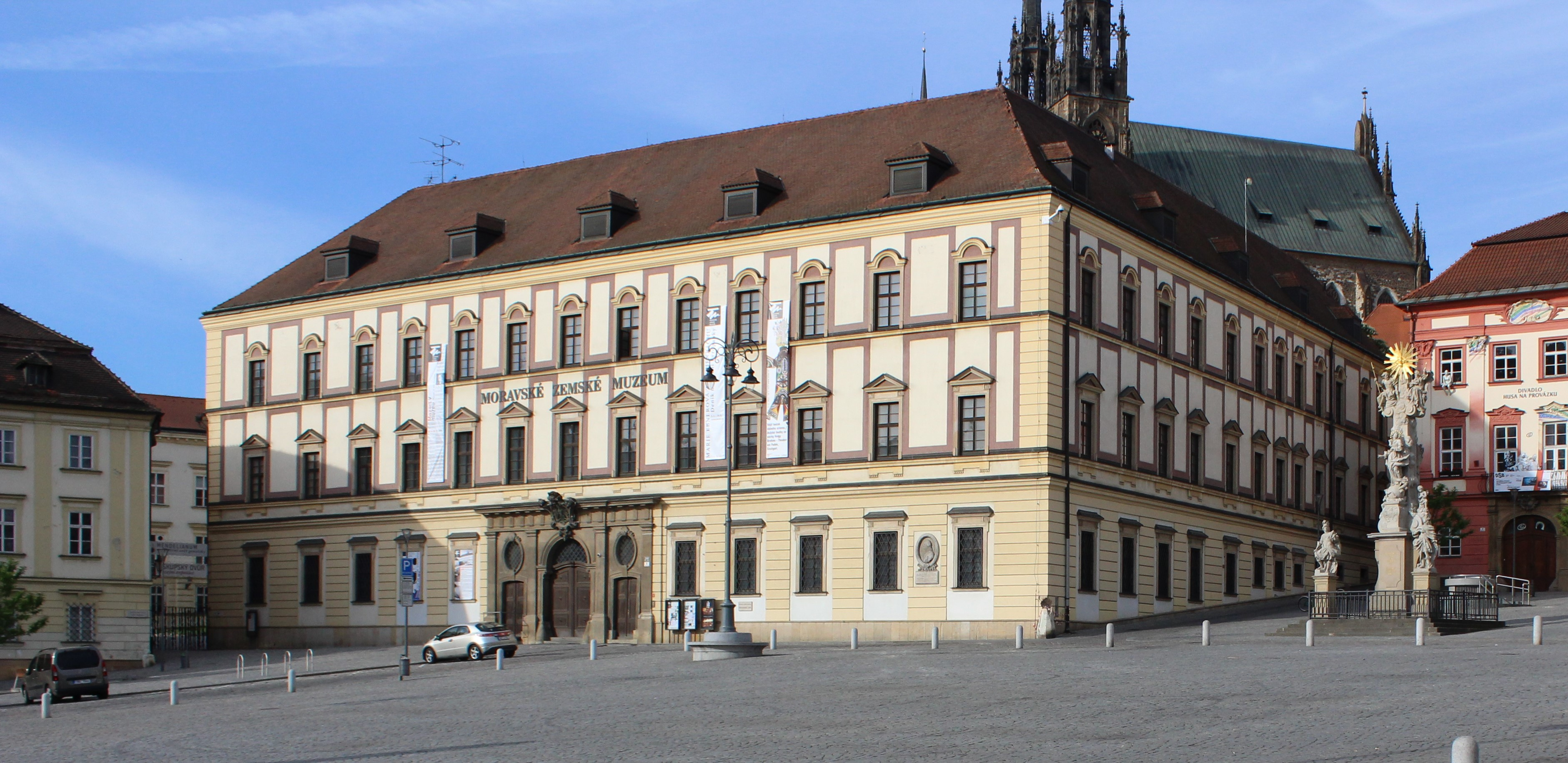 Moravian Museum - Palais prince of Dietrichstein, Brno